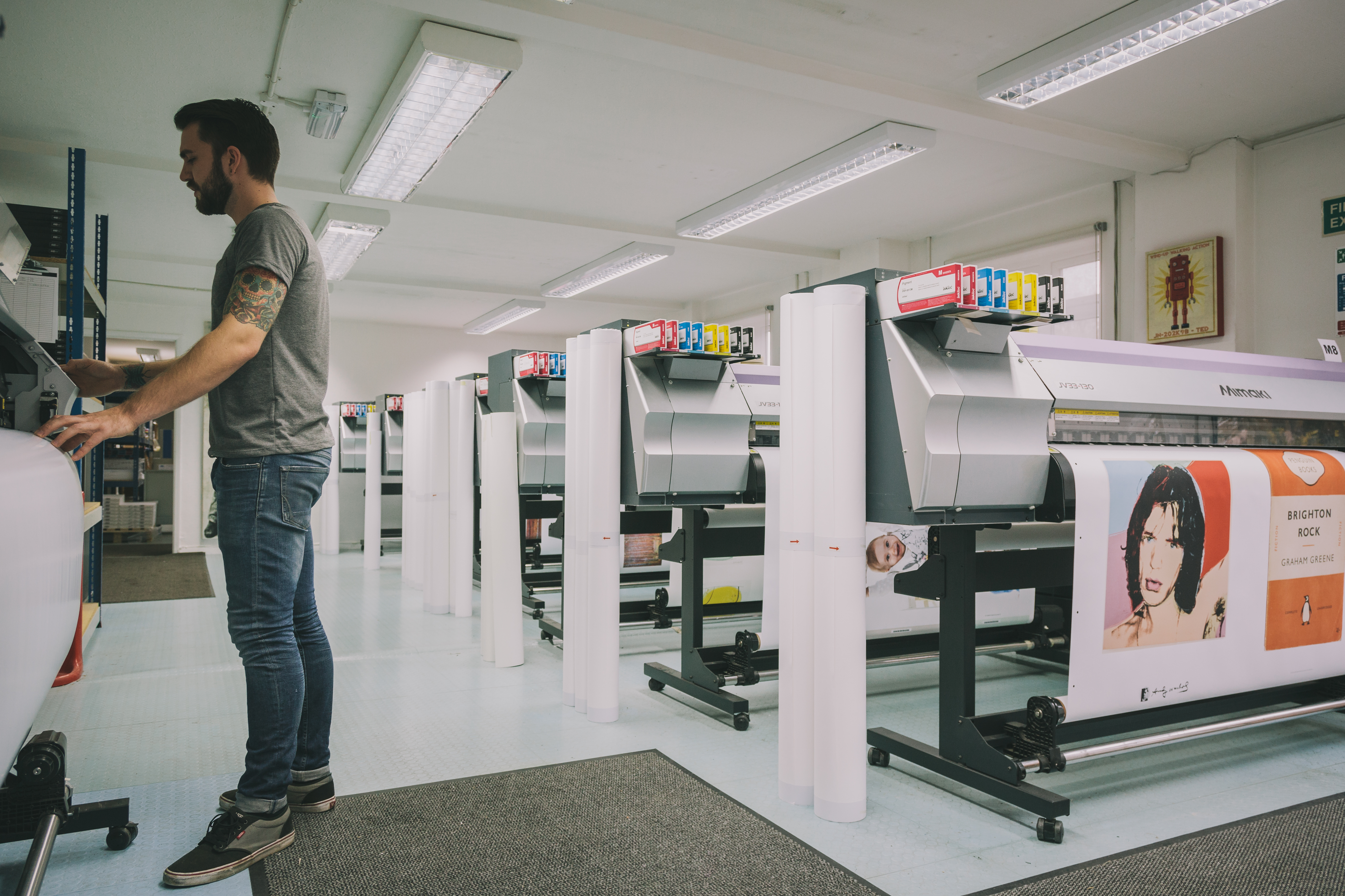 Print on Demand machines at King and McGaw warehouse in Newhaven